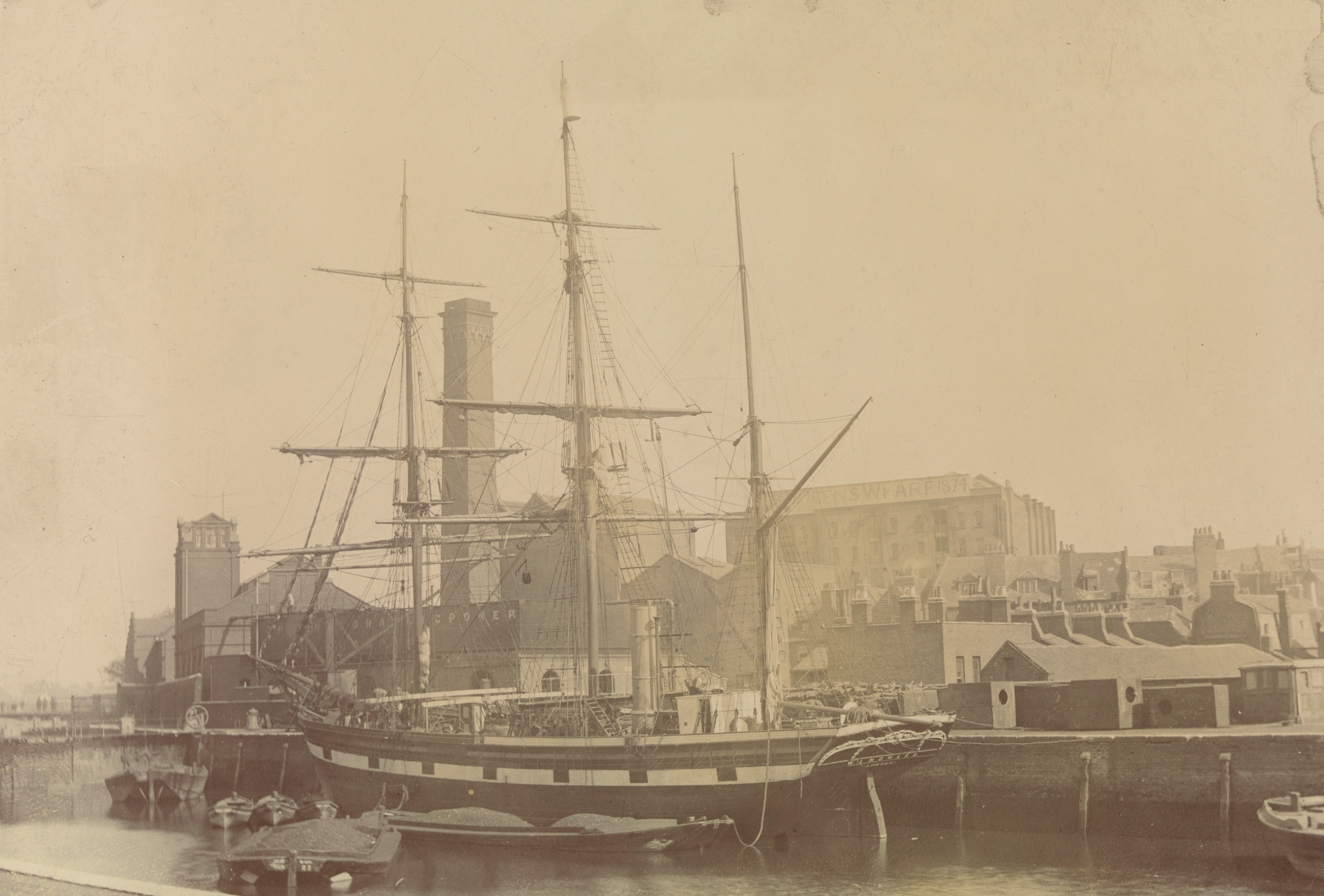 The schooner bark «S.Y. Windward» by the pier outside of Queens Wharf. The ship is photographed before the departure of Jackson's expedition to Franz Joseph Land,1894-1897.